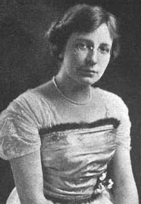 Mae Doelling, from a 1922 publication. A white woman wearing glasses, pearls, and a gown.